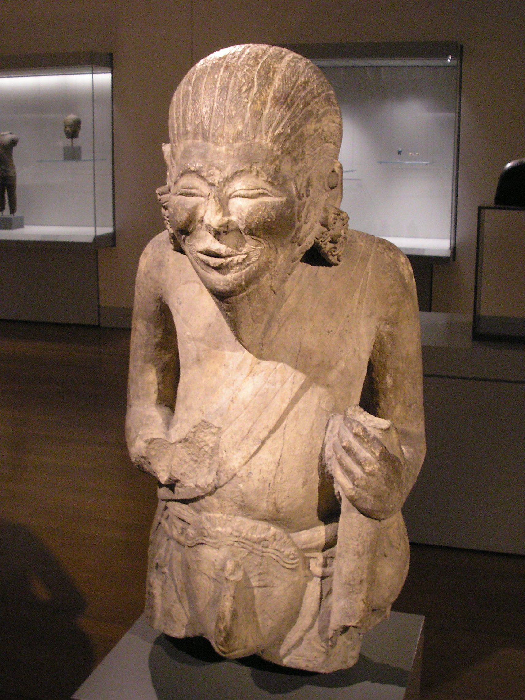 Brahmanic ascetic, eastern Java, late Majapahit period (?), 1294-1530, limestone, 60 x 29 cm. Located in the Museum für Indische Kunst, Berlin-Dahlem.